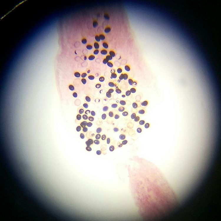 p